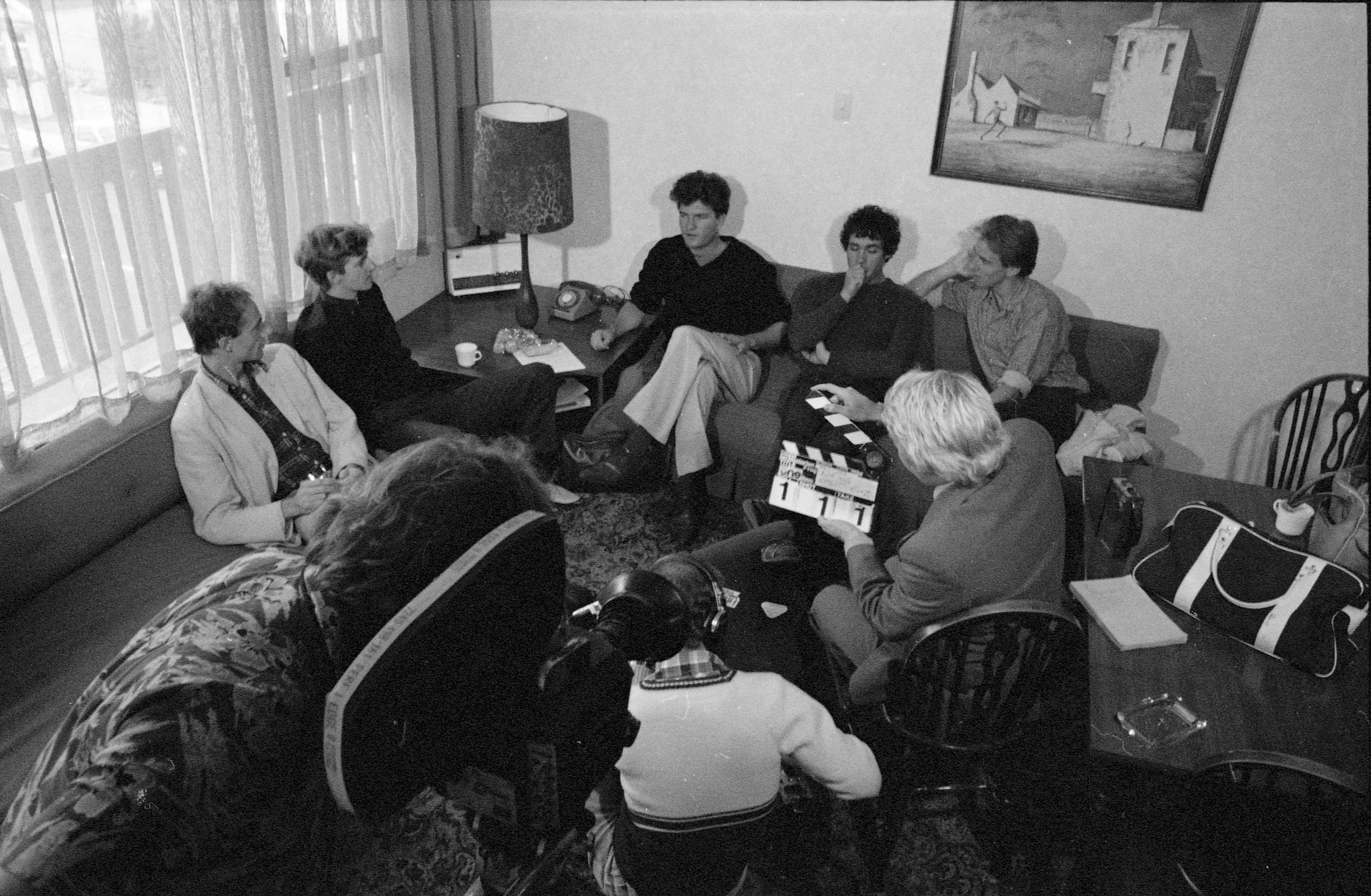 This image is from the Dunedin Office of Archives New Zealand. Reference: News and Current Affairs – Negatives – News – Pat O’N with Split Enz – February 1980 [AAAA 21431 D569/28b ] The photographs in this series document the history of public broadcasting, primarily television programming, in Otago. The photographs portray the staff and production work of DNTV-2 television station from its beginning in 1962. There are also some photocopies of photographs relating to radio broadcasting from the 1930s and 1940s, for example erection of the radio transmitter at Highcliff and portraits of radio personalities, such as Dorothy Wood. For further enquiries please Material from Archives New Zealand